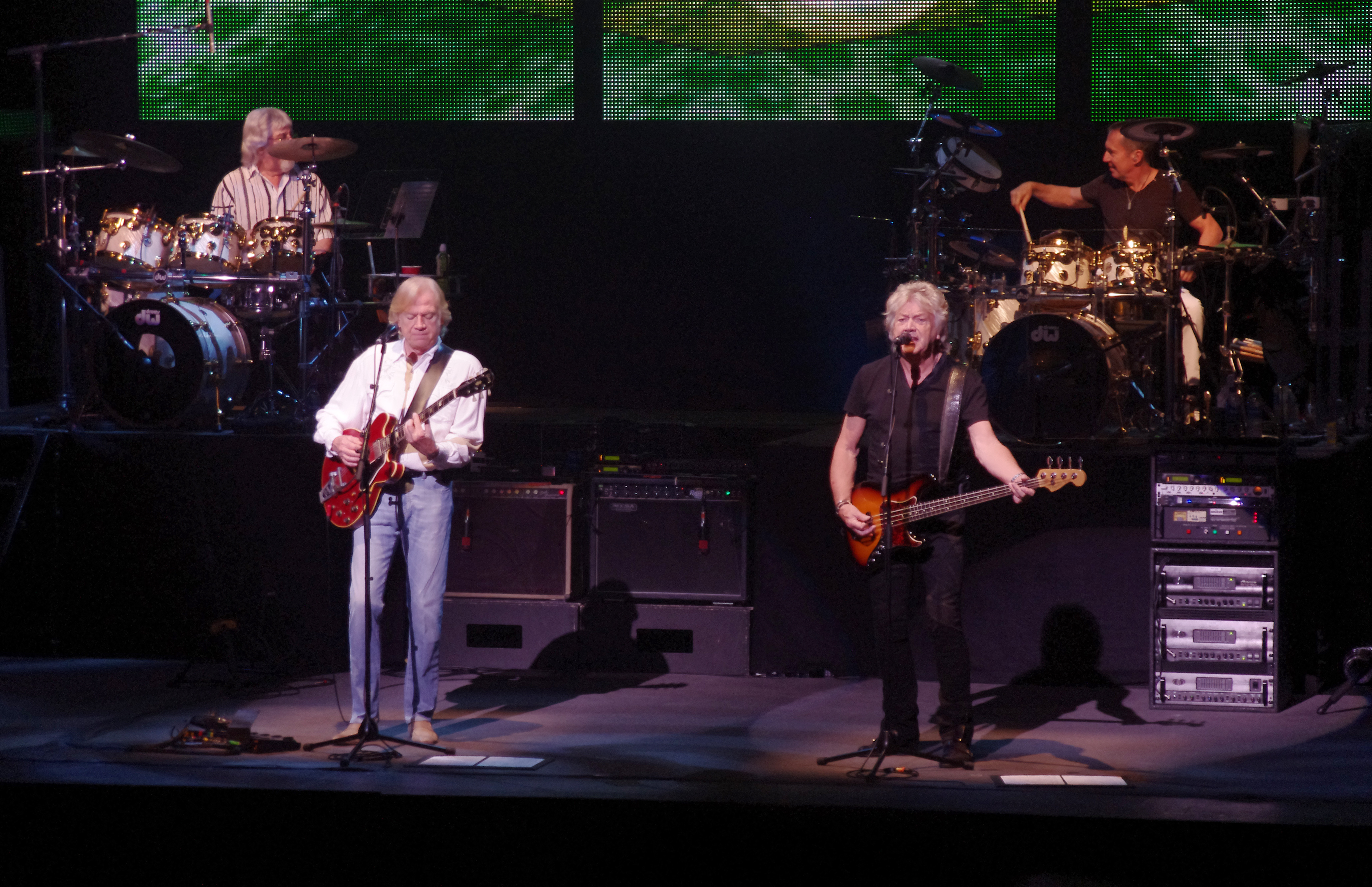 The Moody Blues perform onstage at the Bristol Hippodrome.